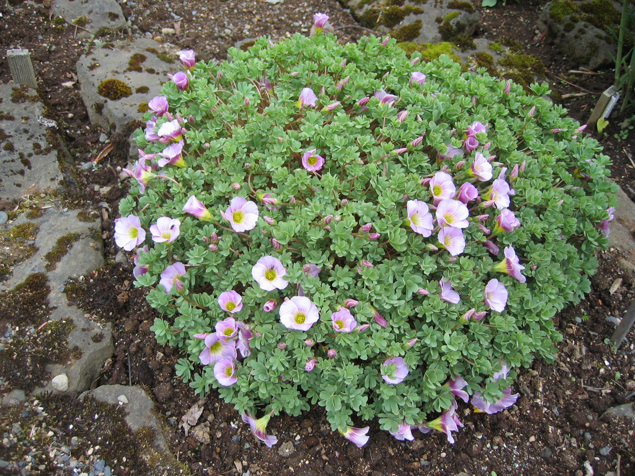 Oxalis enneaphylla Photo by Salvor taken in the botanical garden in Reykjavik.